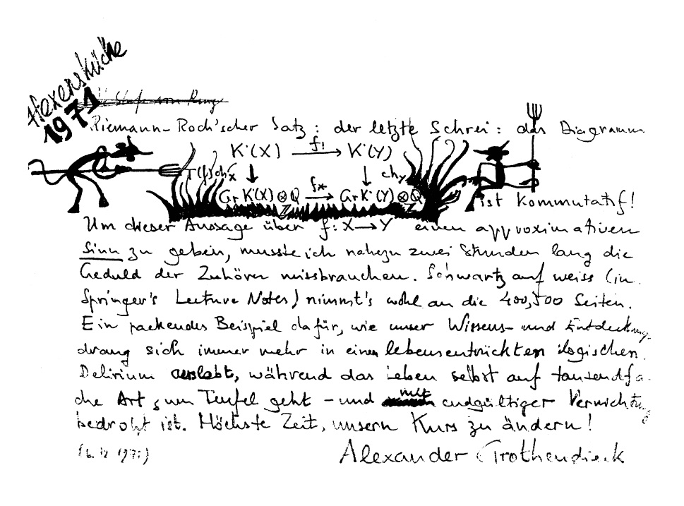 Hand sketch